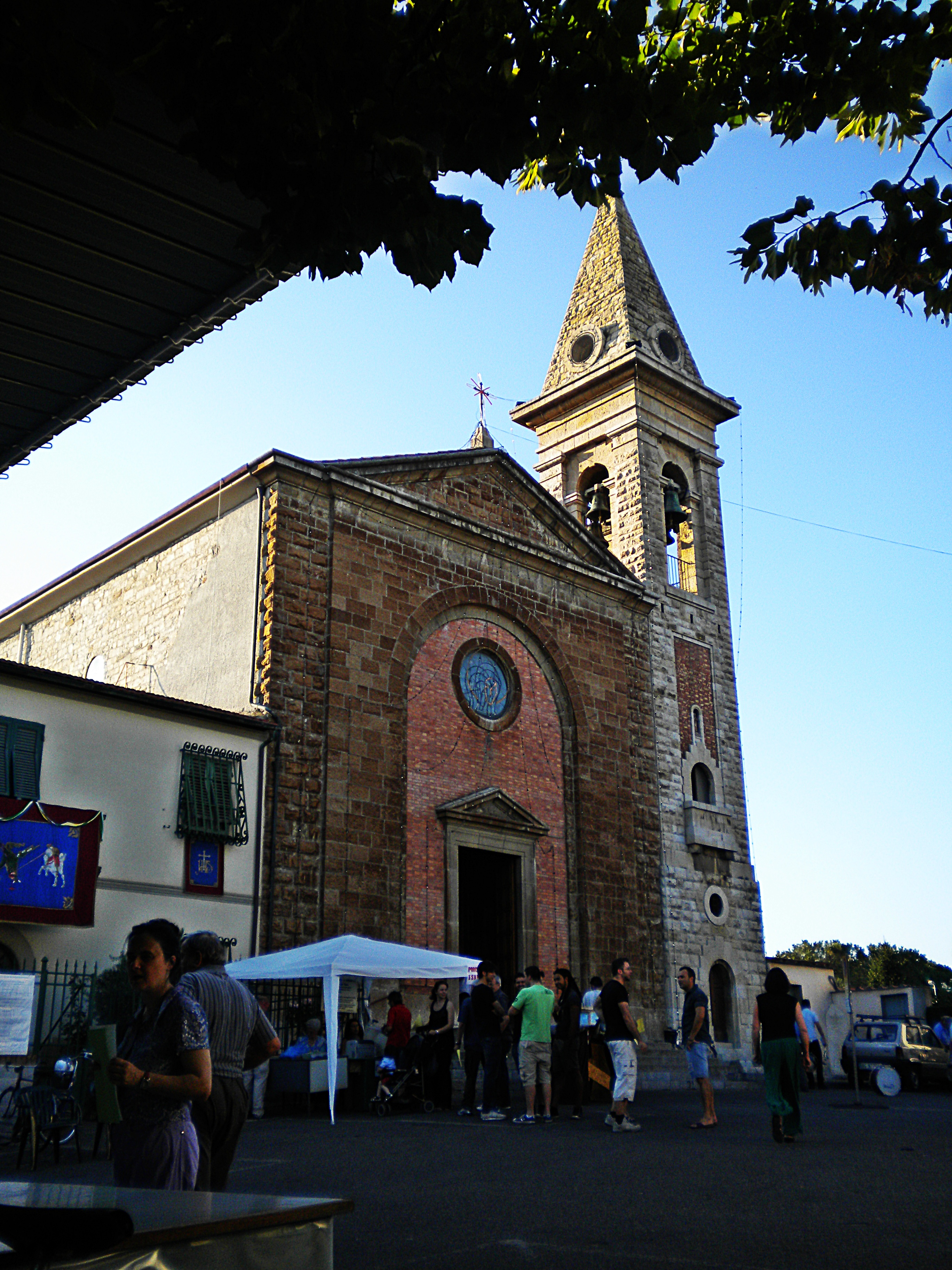 facade